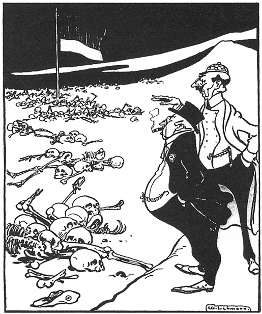 P. 137 of "Genocide in German South-West Africa: The Colonial War of 1904-1908 and Its Aftermath", by Jurgen Zimmerer, Joachim Zeller and E. J. Neather, Merlin Press (December 1, 2007)